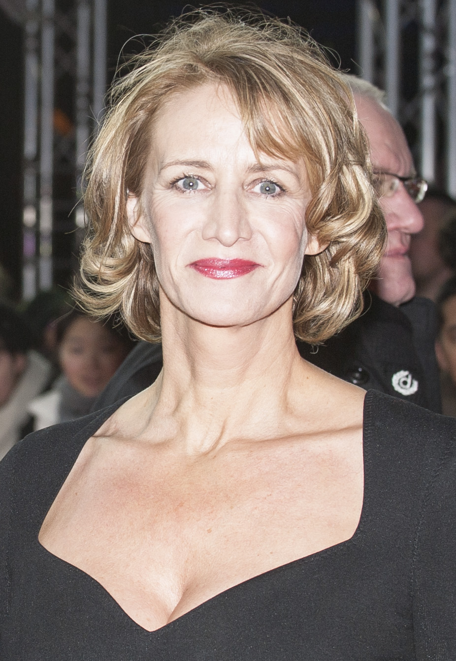 Janet McTeer Premiere of the movie "Angelica" at the Zoo Palast